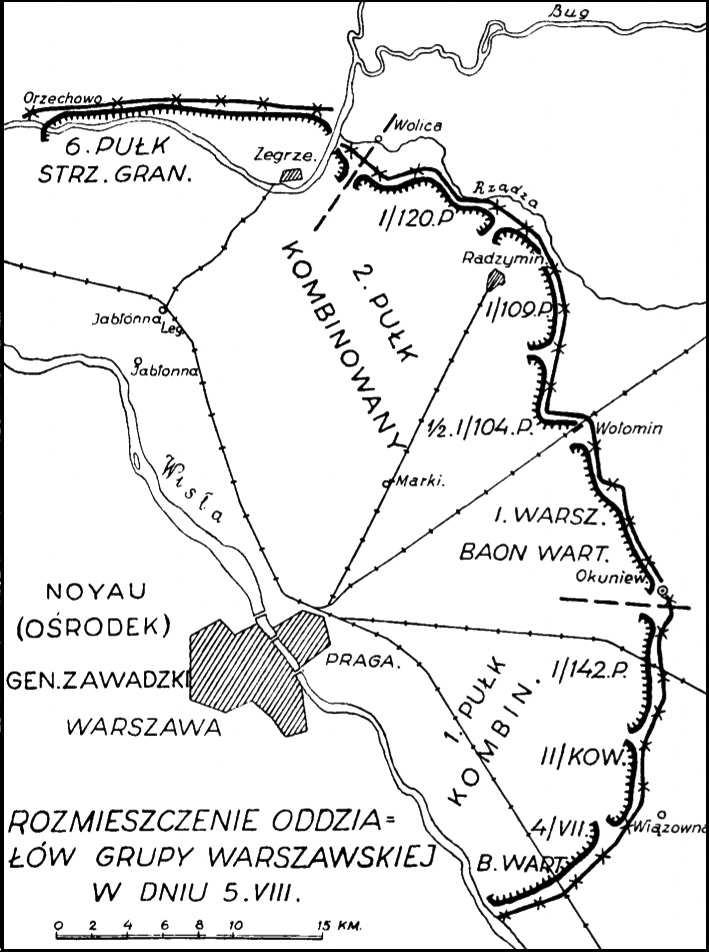 Battle for the Warsaw bridgehead. Arrangement of units of the Warsaw Group on August 5, 1920. Sketch No. 7